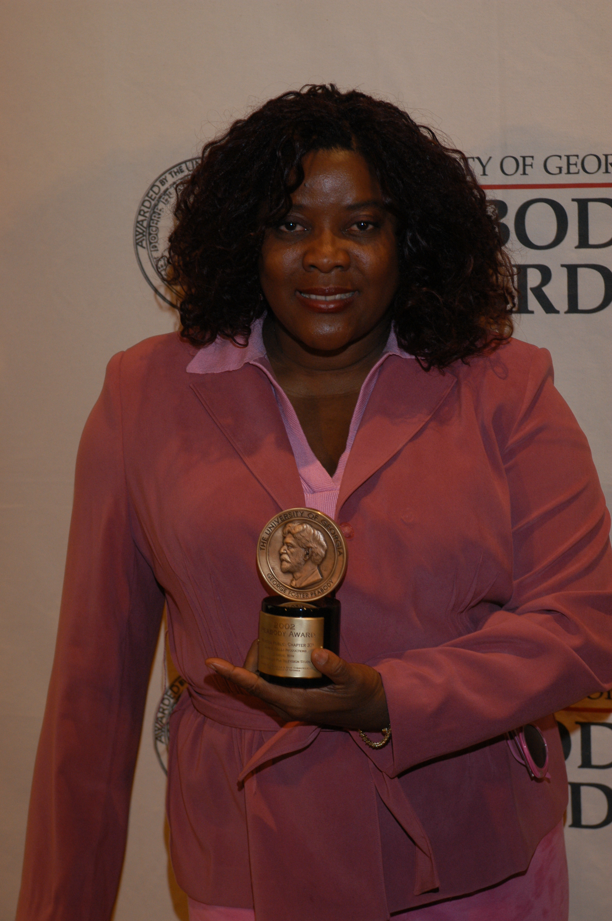 PHOTO CREDIT: ANDERS KRUSBERG / PEABODY AWARDS Loretta Devine at the 62nd Annual Peabody Awards Luncheon Waldorf=Astoria Hotel May 19, 2003